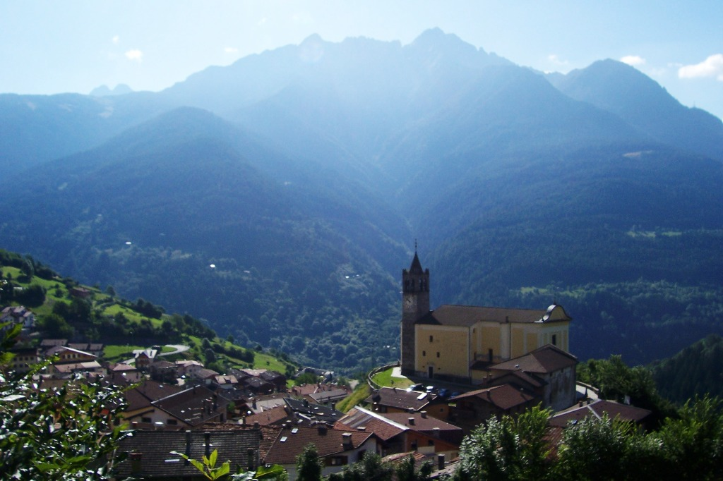 Panorama. Monno, Val Camonica, Italy